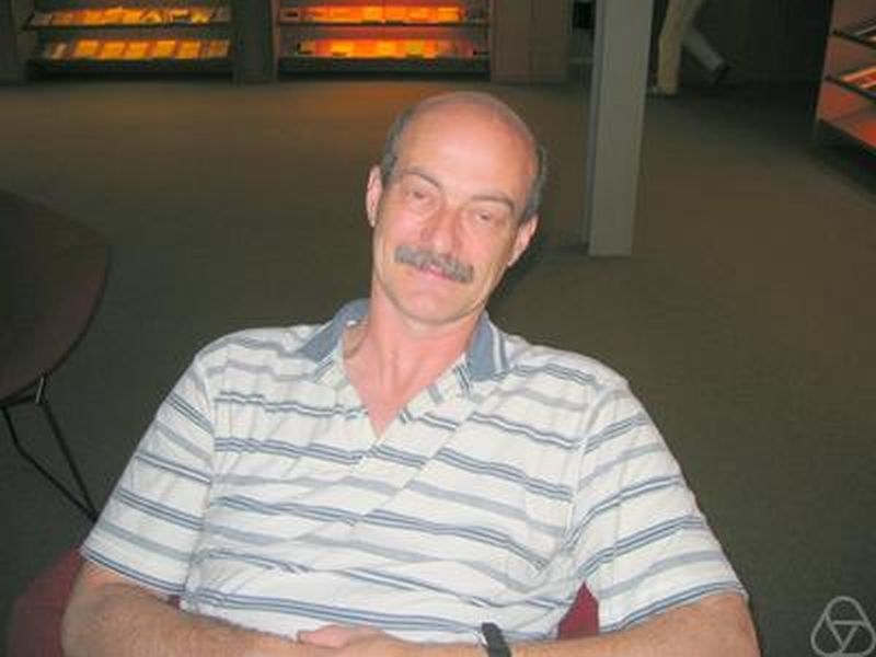 Henri Gillet, Oberwolfach 2006